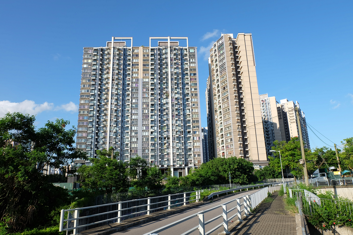 Park Signature Tower 6-8